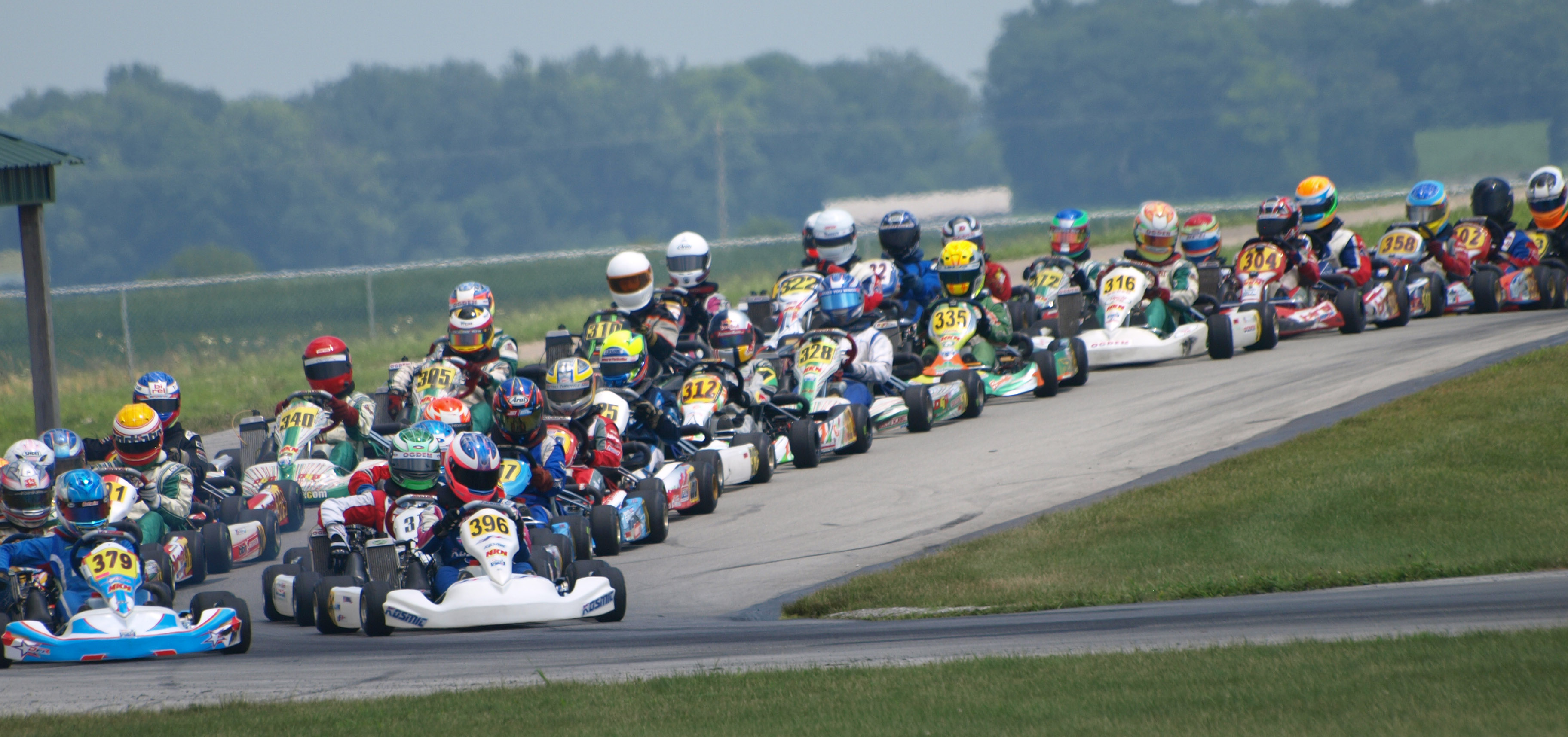 Jr Rotax Finals - 2010 US Grand Nationals Parade Lap